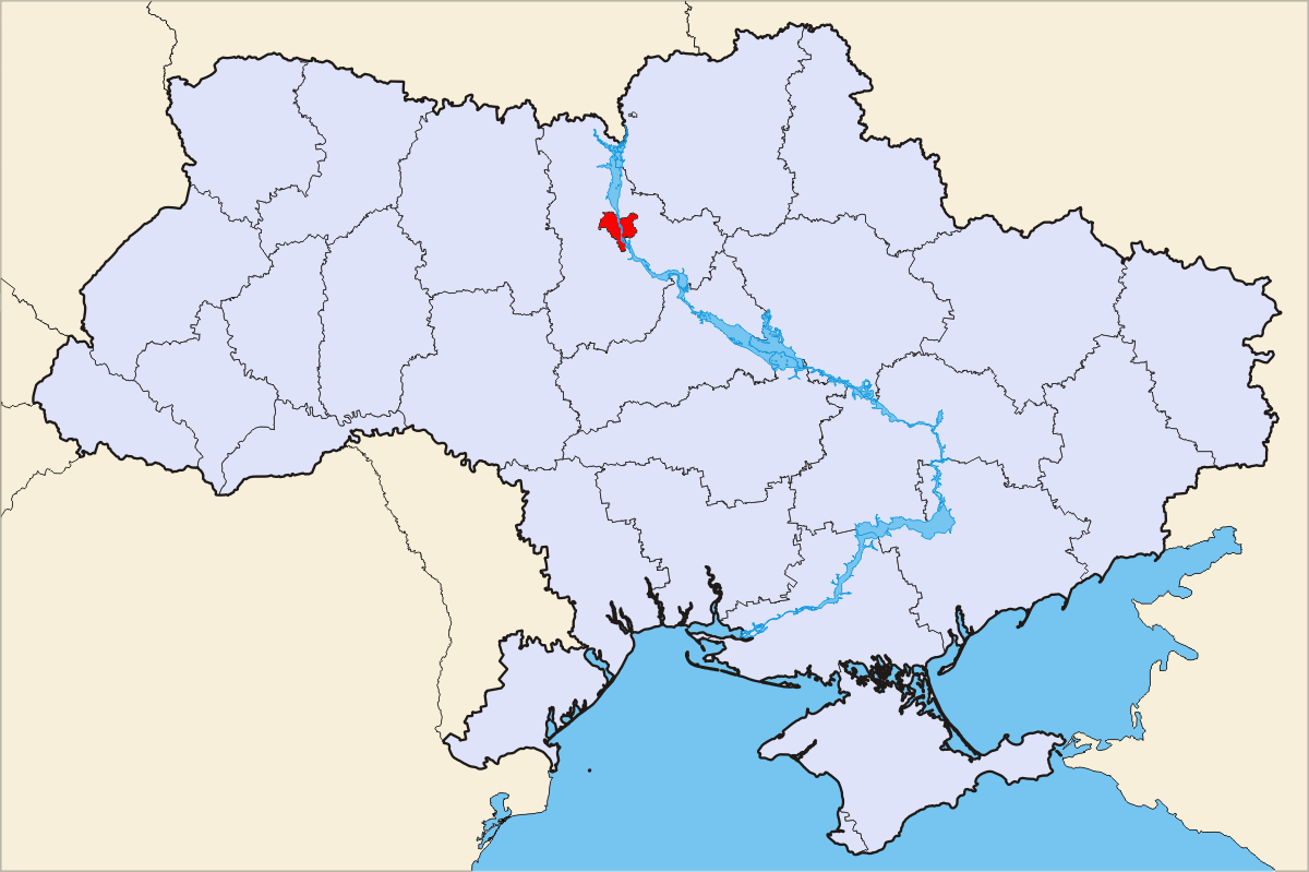 Political map of Ukraine, highlighting Oblast